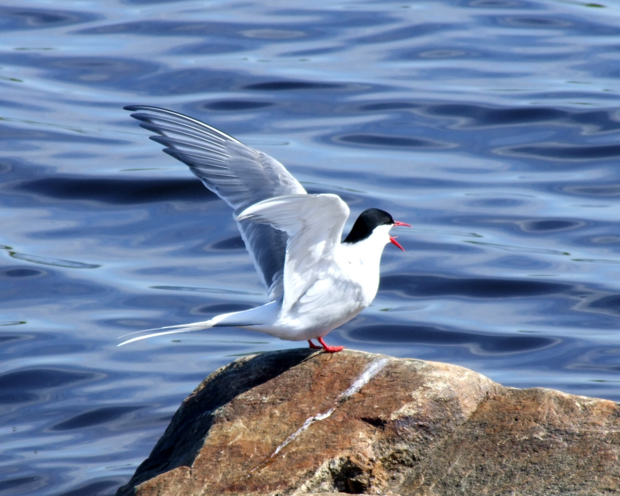 An Arctic Tern (Sterna paradisaea) by Bothnian Bay in Simo, Finland.